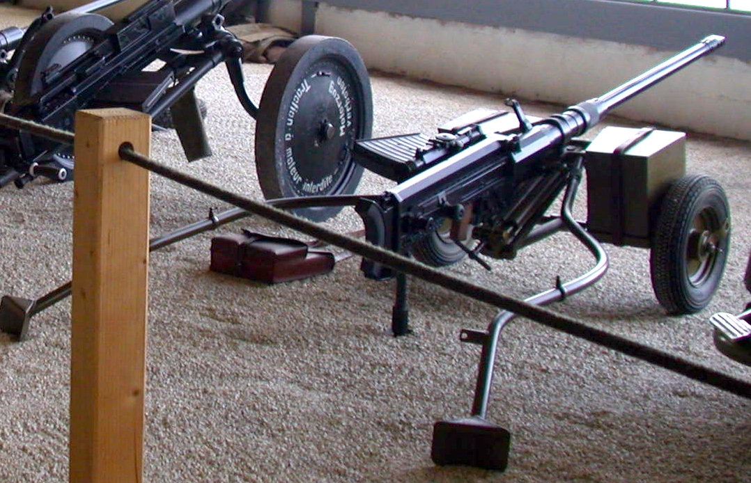 20 mm Anti-tank Gun Solothurn 41